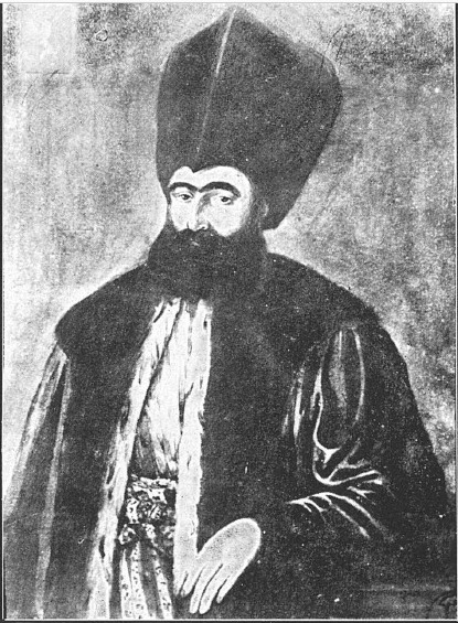 Portrait of Dinicu Golescu, Wallachian intellectual.